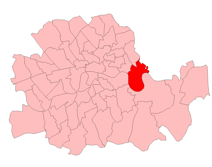 A map of Poplar South constituency within the London County Council area, as it existed from 1918 to 1949.